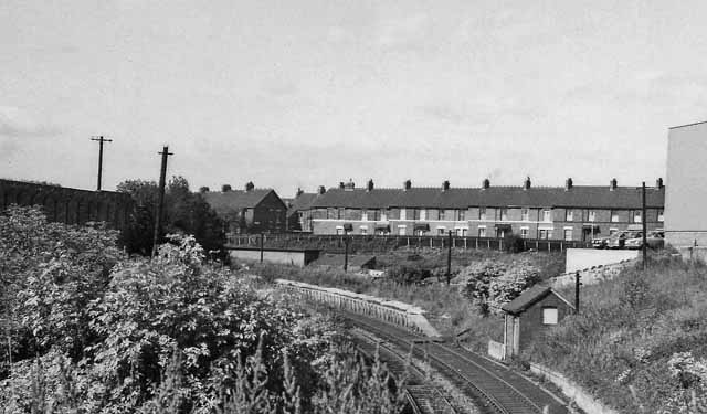 Byker Station (remains), View NW, towards Riverside Junction (immediately to the left) and Newcastle (Central); ex-North Eastern Riverside Line, (Newcastle -) Riverside Junction - Walker - Percy Main (- Tynemouth) , electrified in 1904. (Tyneside electric railway services were usurped by DMUs in 1967, prior to the inauguration of the Tyne & Wear Metro in 1980). Byker station closed on 5/4/54 and is now replaced by a Byker station on the Metro opened 14/11/82. The Riverside Line lost its by then exiguous passenger service in 7/73, but goods continued along at least part of the line until 25/9/87.